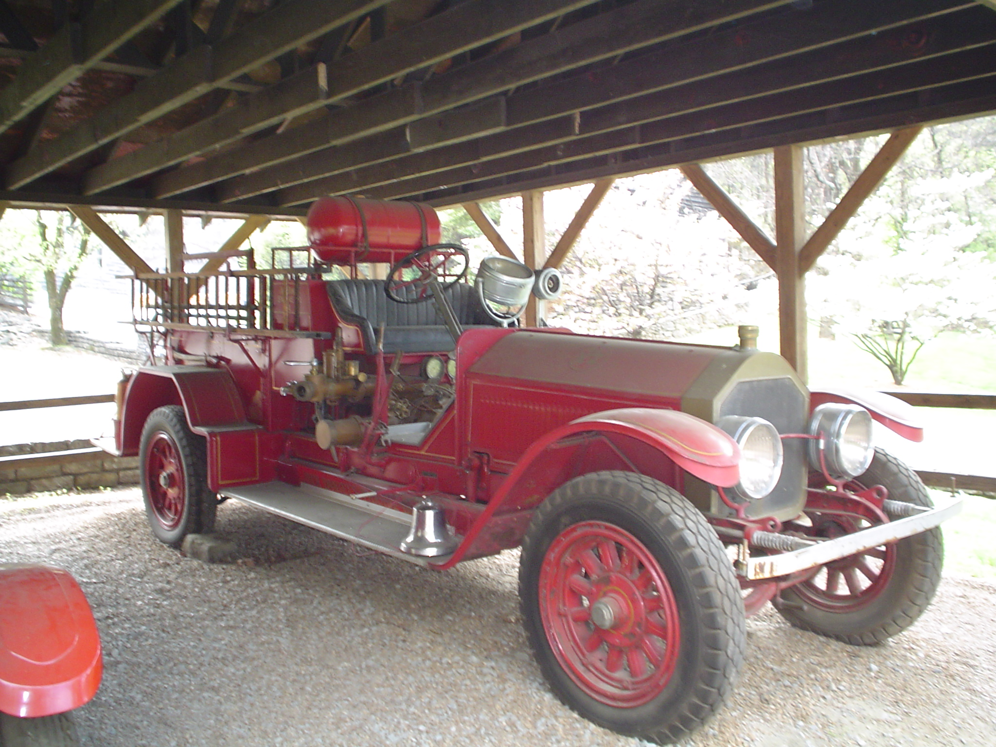 The Jack Daniel's Fire Department at the Jack Daniel's Distillery in Lynchburg, Tennessee, USA. Fire Truck type is Unknown.